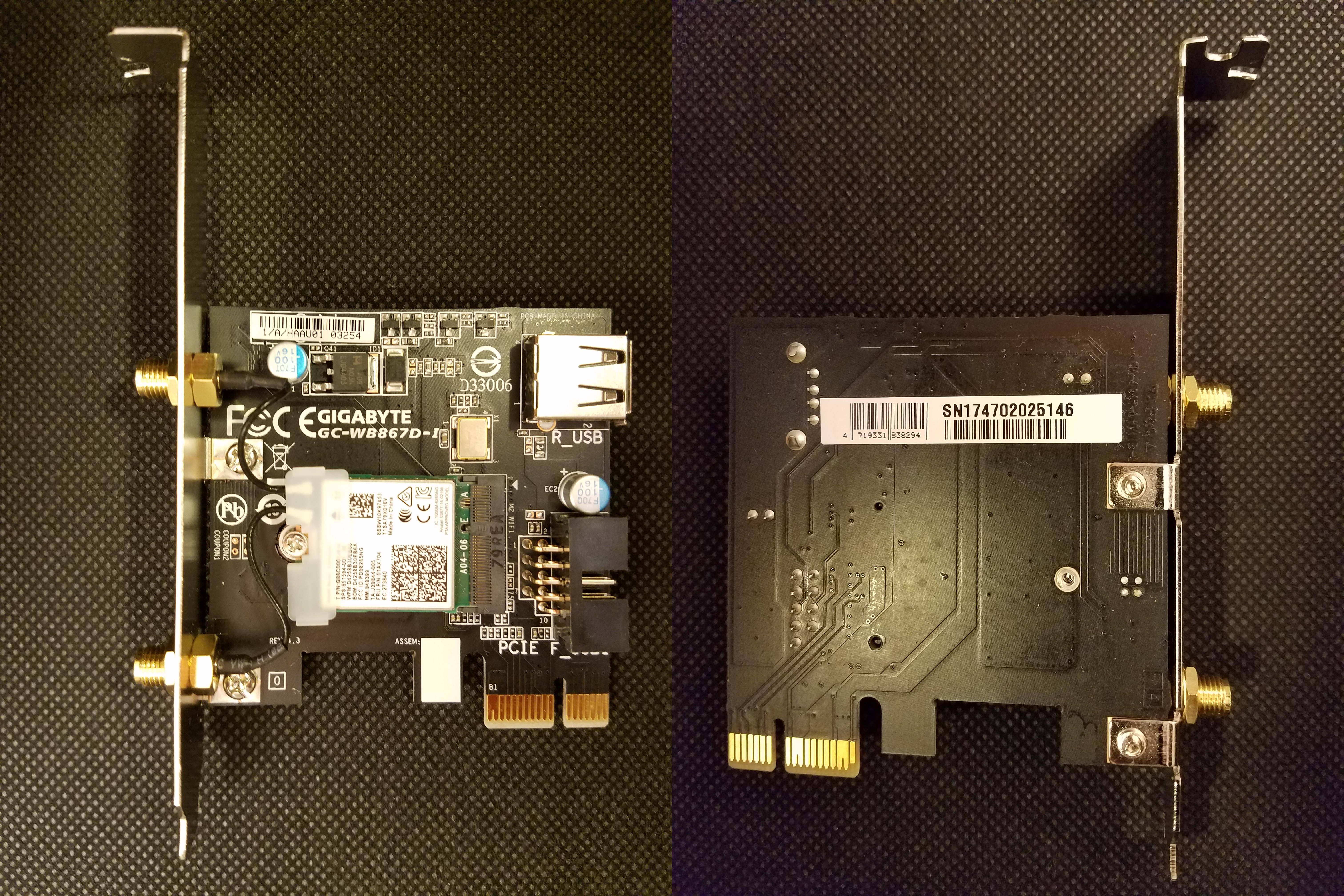 Gigabyte GC-WB867D-I wifi card. This PCI Express 1x card measures 21 x 15 x 5.5 cm. It provides 802.11B, 802.11G, 802.11n up to 867 Mbps and bluetooth 4.0. It is necessary to connect it to USB 2 via an internal cable connected to the motherboard. Its two outputs are used to connect it to an external antenna to improve the transmission. At the beginning of 2018 it cost about 30 €.